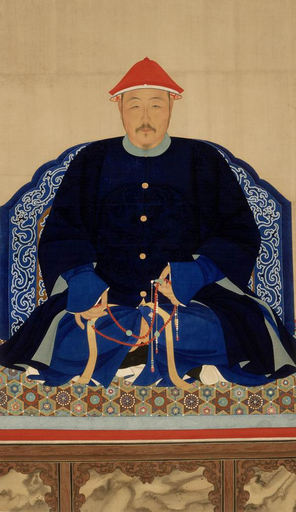 Qing's Taizong Emperor.